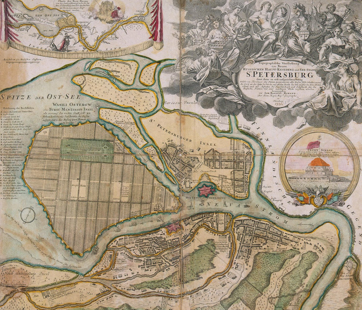 Map of Saint-Petersburg. , Etching with line engraving, painted in watercolour, 50.5x59.5 cm. 1720s (before 1725)